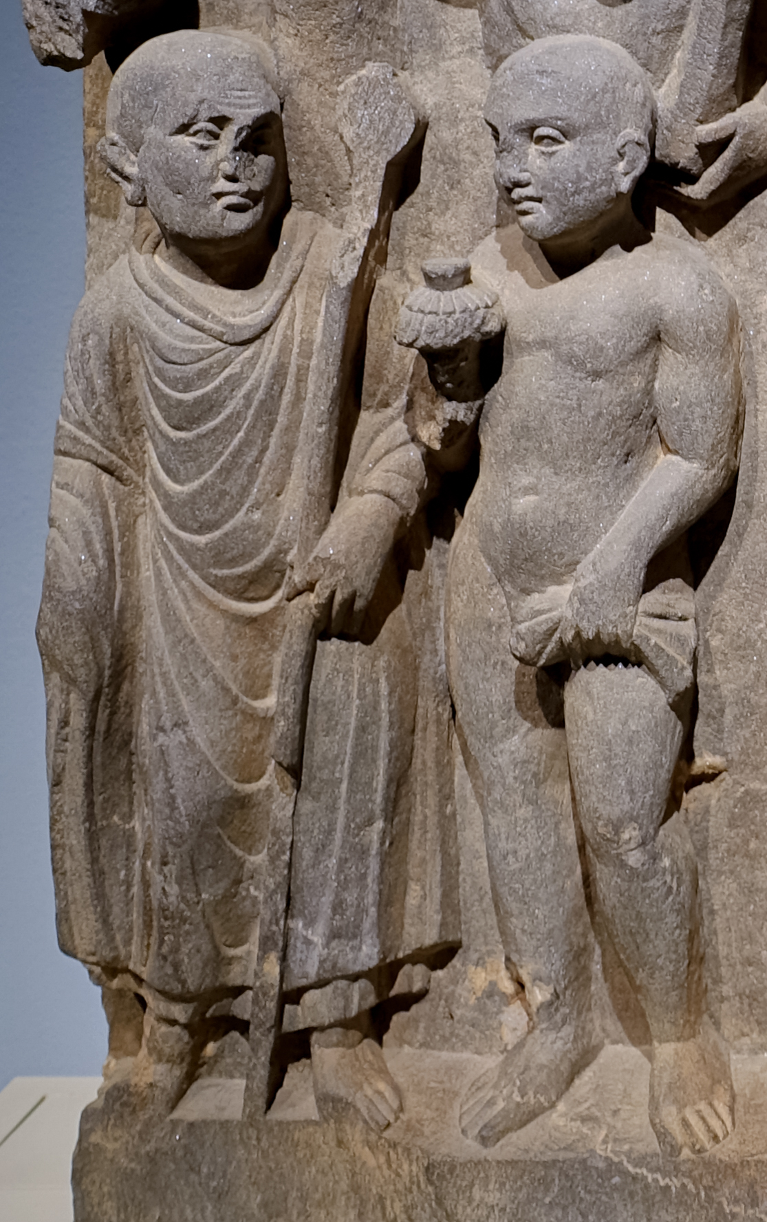 Mahākāśyapa meets an Ājīvika and learns of the parinirvana, Gandhara sculptureReferences:(in English) (2015) Early Asceticism in India: Ājīvikism and Jainism, Routledge, p. 278 ISBN: 9781317538530. (in English) (2015) Early Asceticism in India: Ājīvikism and Jainism, Routledge, p. 279 ISBN: 9781317538530. (in English) (2015) Early Asceticism in India: Ājīvikism and Jainism, Routledge, p. 281 ISBN: 9781317538530. British Museum catalogue British Museum catalogue